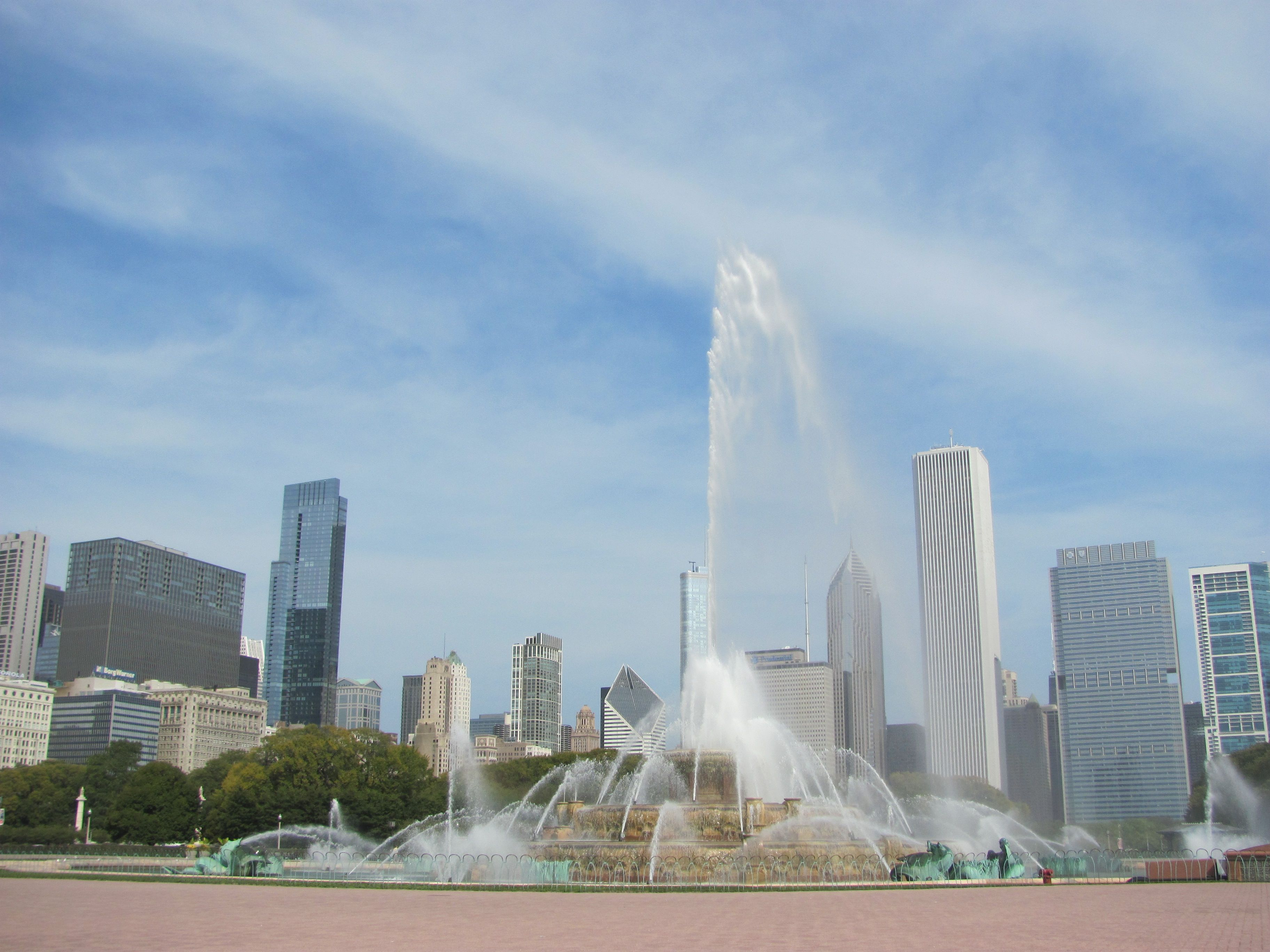 Skyline & Buckingham Fountain, Chicago